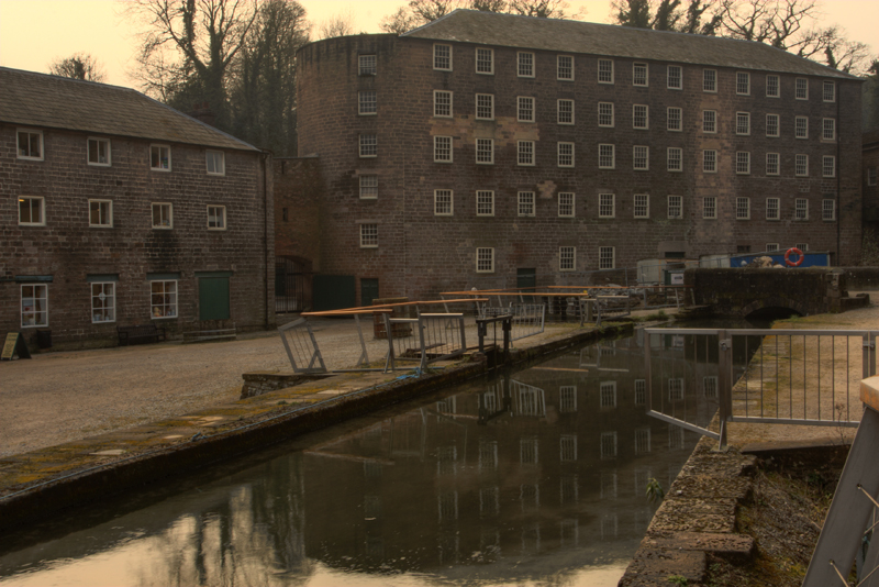 Cromford Mill in Derbyshire